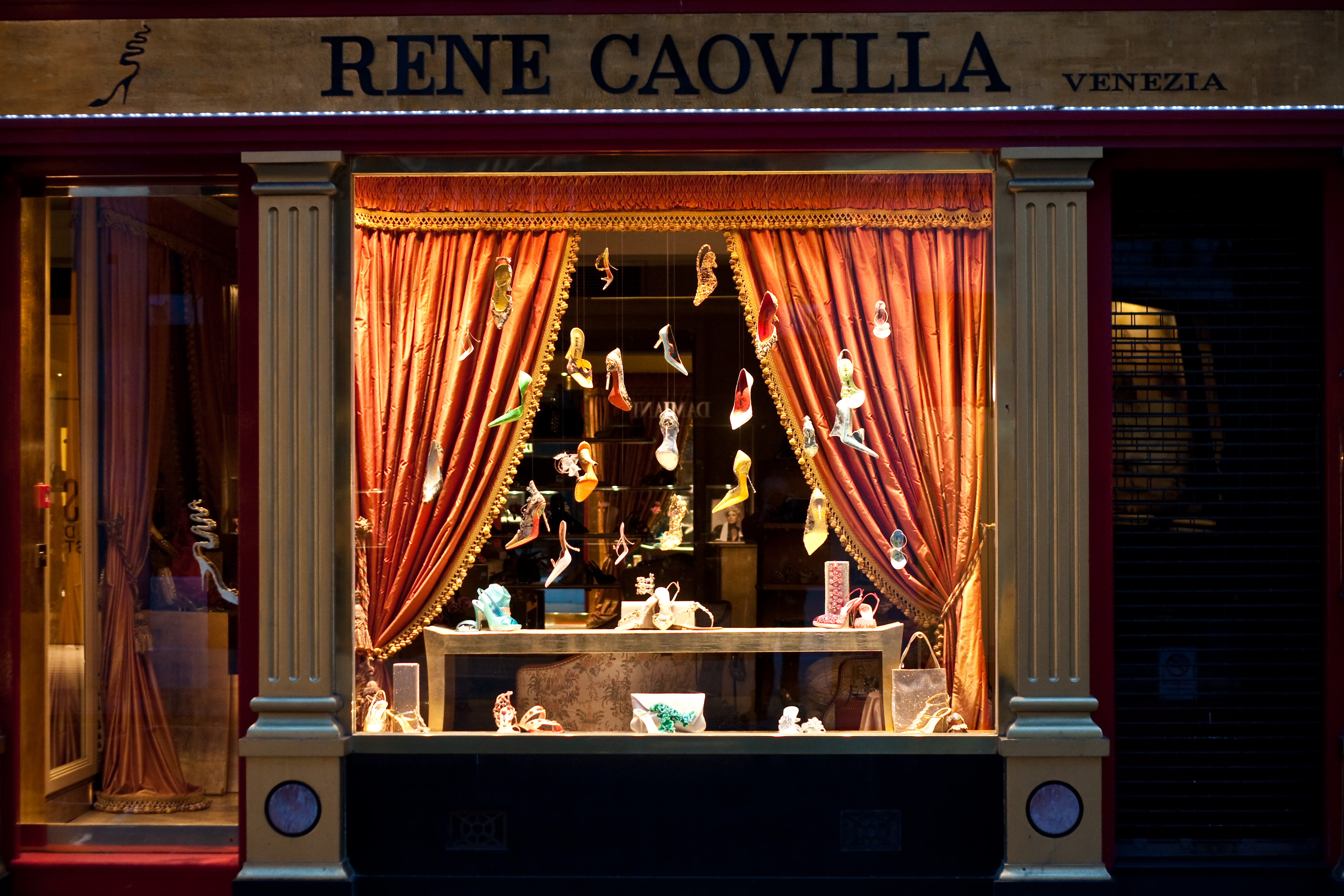 Shoes By Rene Caovilla, in Old Bond Street, London.